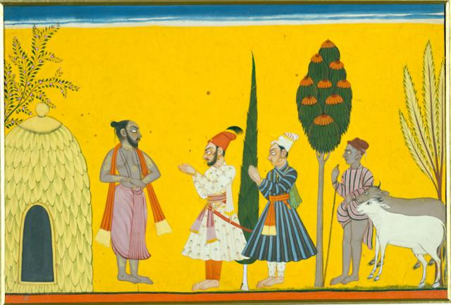 Visvamitra visits Vasishtha's hermitage. This painting, executed in thick, bright colour, is bordered in red and has a thin strip of blue sky across the top in which are wispy white clouds. The four varied trees and four figures stand against a flat yellow background. The hermit stands on the left before his leaf hut, facing the three visitors. Two wear elaborate turbans and robes, while the other is a cow herd wearing simple dress, his two cows beside him. The hermit has painted skin on his torso, arms and face, and his long hair is tied in a bun. He wears a pink cloth skirt, beads and a scarf around his neck. All the figures are painted in profile in the Indian style.